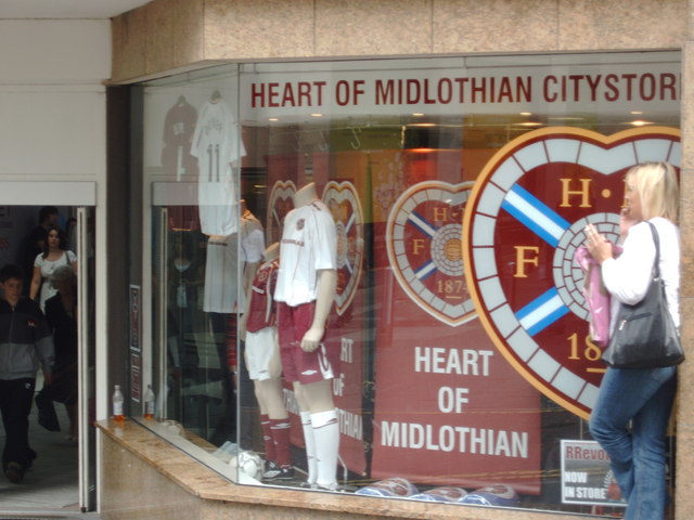 Heart of Midlothian Football Club store window ...At the St. James Centre